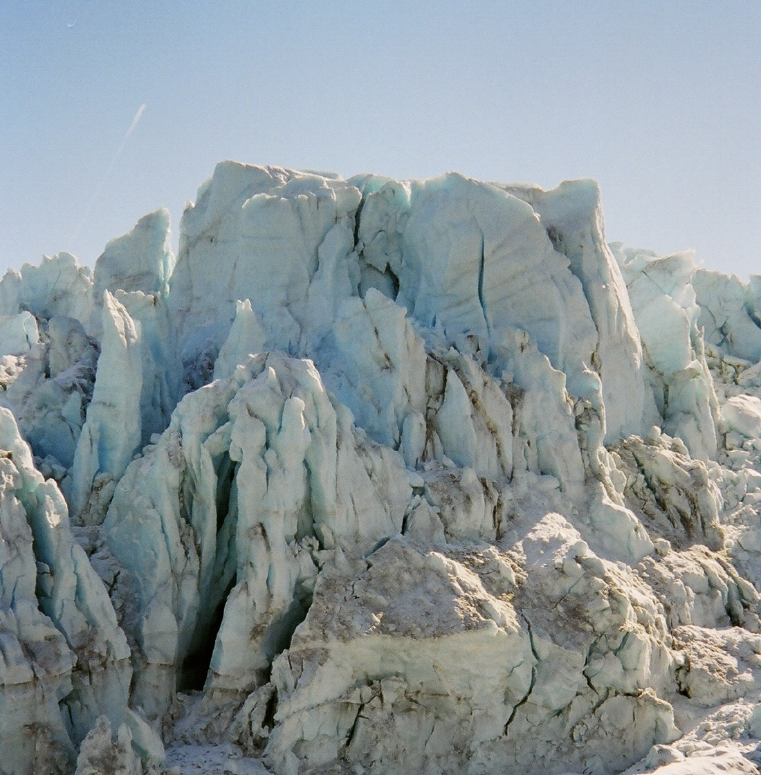 A glacier on Greenland, image taken by Jolanta Dudzińska-Pettersen.